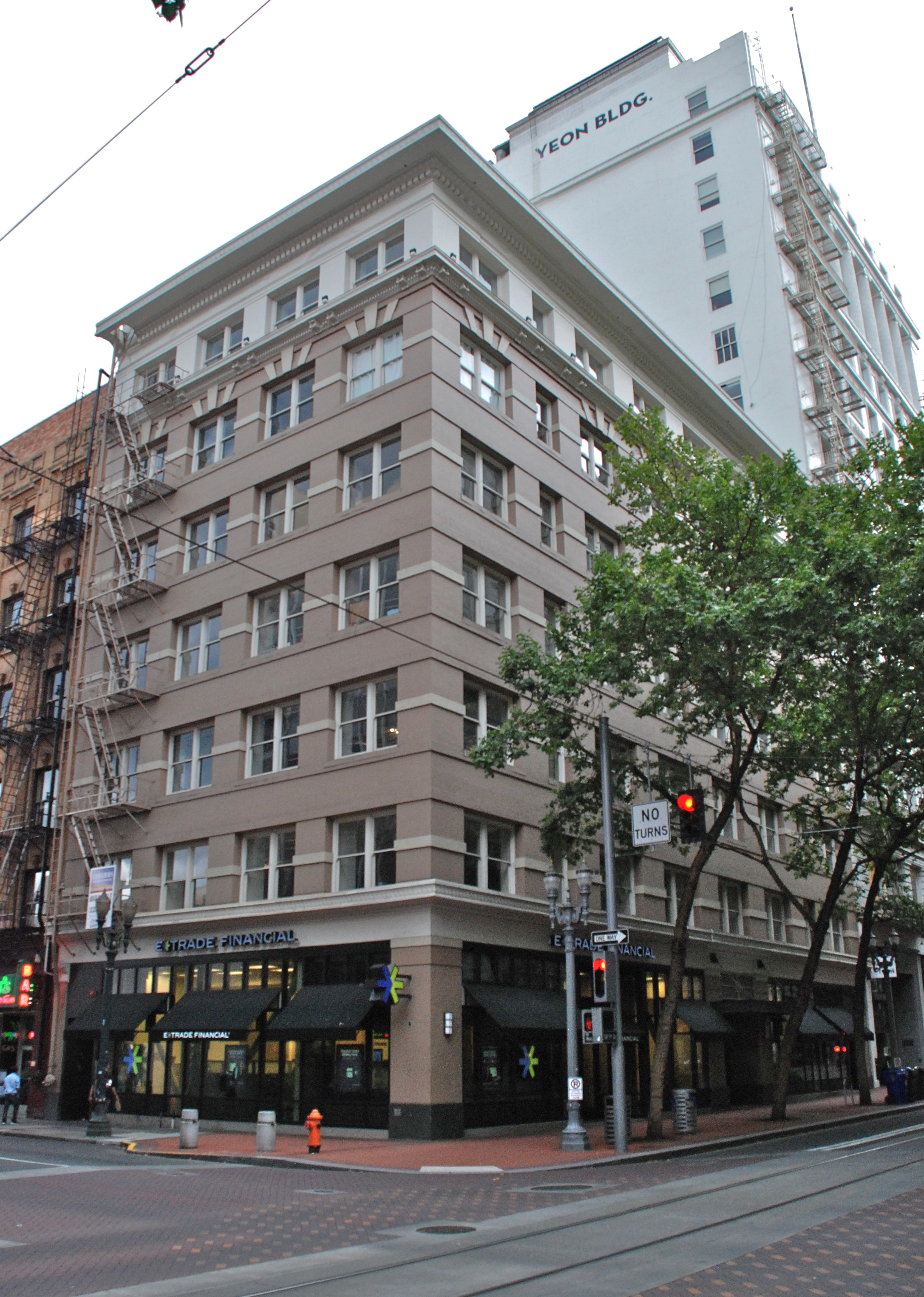 The Swetland Building (built in 1907), in downtown Portland, Oregon, is listed on the U.S. National Register of Historic Places. It is located at the southeast corner of the intersection of 5th Avenue and Washington Street. This photo is from across the intersection, looking southeast.